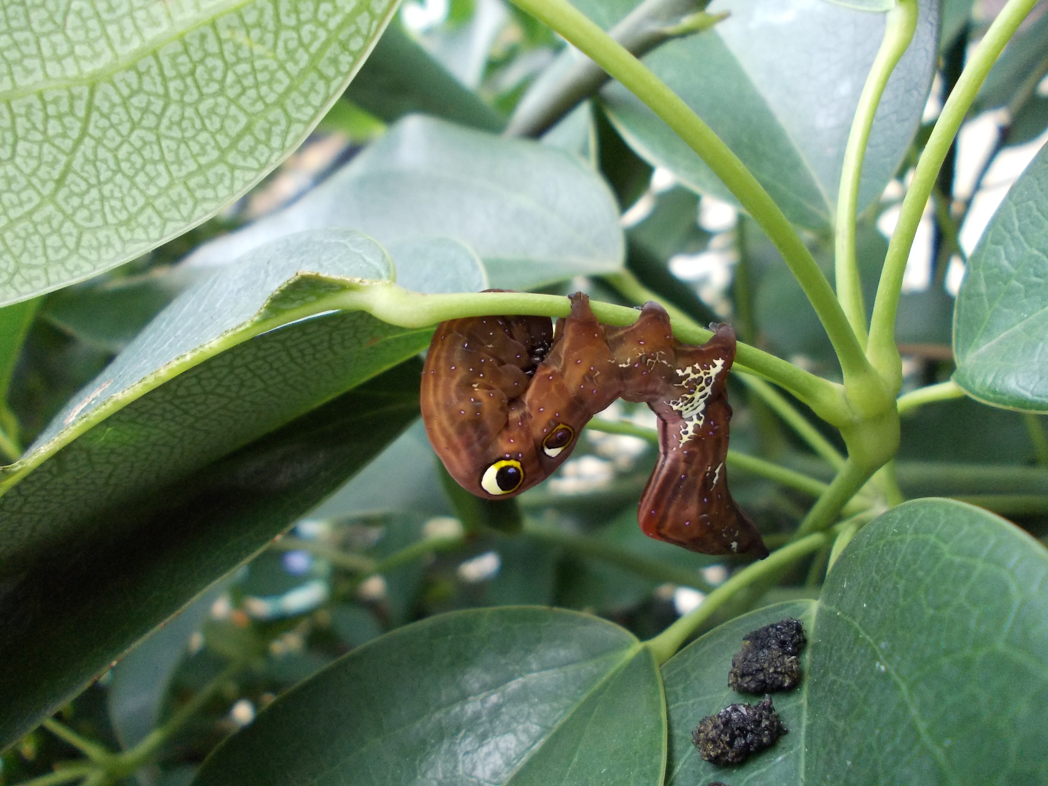 Eudocima tyrannus Larva